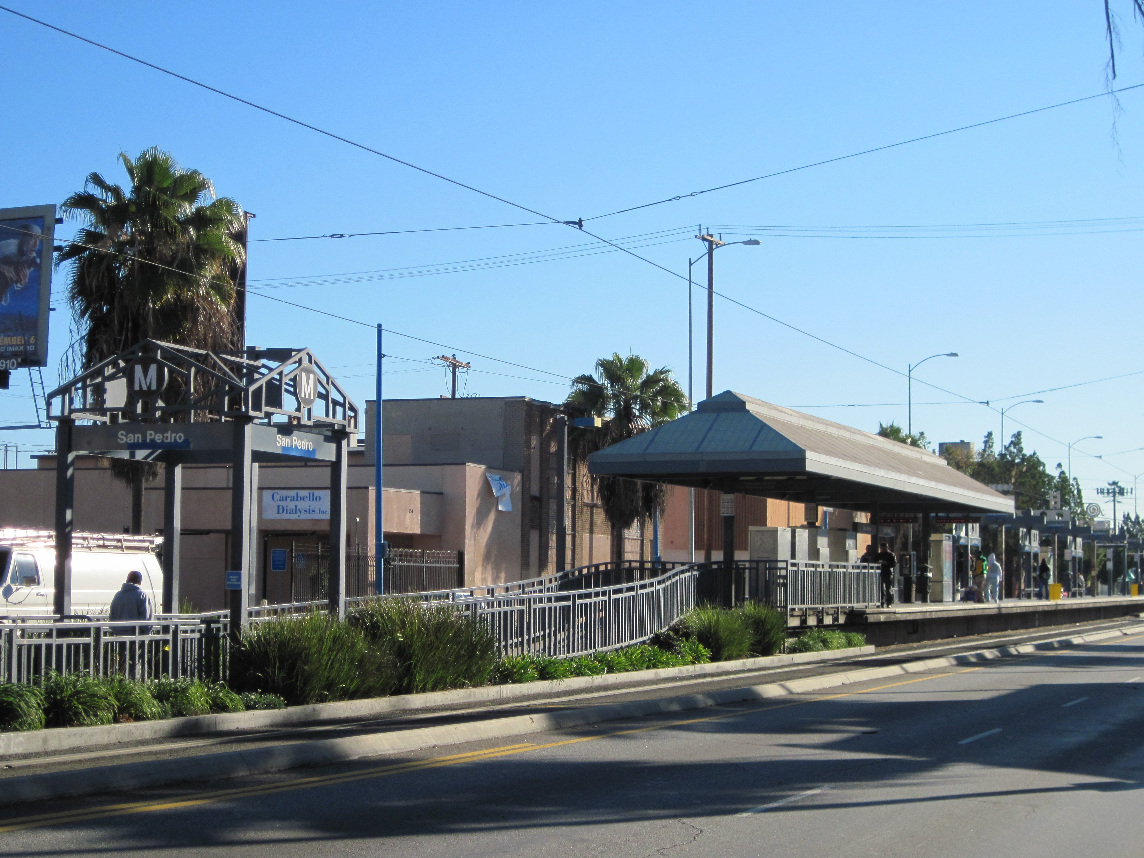 The Los Angeles County Metropolitan Transportation Authority's San Pedro station, in Category:San Pedro, serving the Metro Blue Line in Los Angeles, California, USA.